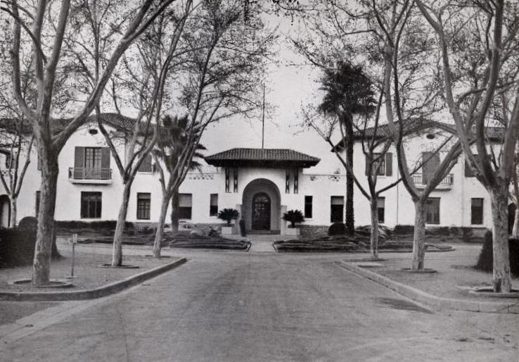 Pavillon de l'Administration de l'Hôpital Psychiatrique de Blida-Joinville, 1933. Frantz Fanon worked as a psychiatrist in this hospital in the 1950s before joining the FLN and the Algerian revolution.